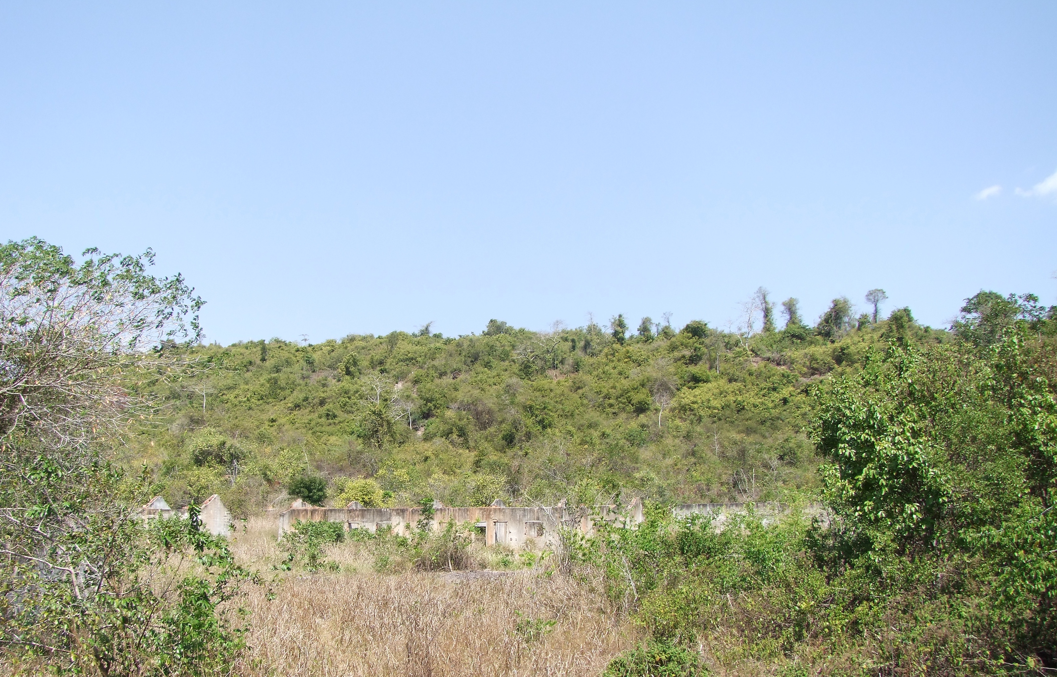 Former buildings of German kaolitine miners at Pugu Hills, Pwani, Tanzania